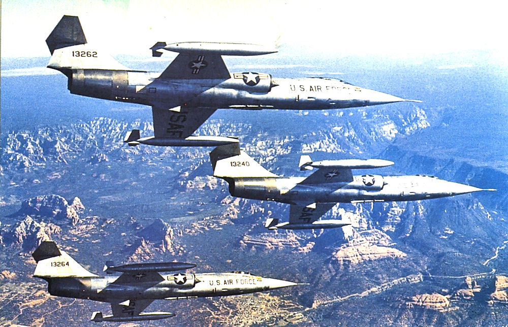 West German Air Force Lockheed F-104G Starfighters 63-13264, 13262 and 13240 fly in formation over Arizona